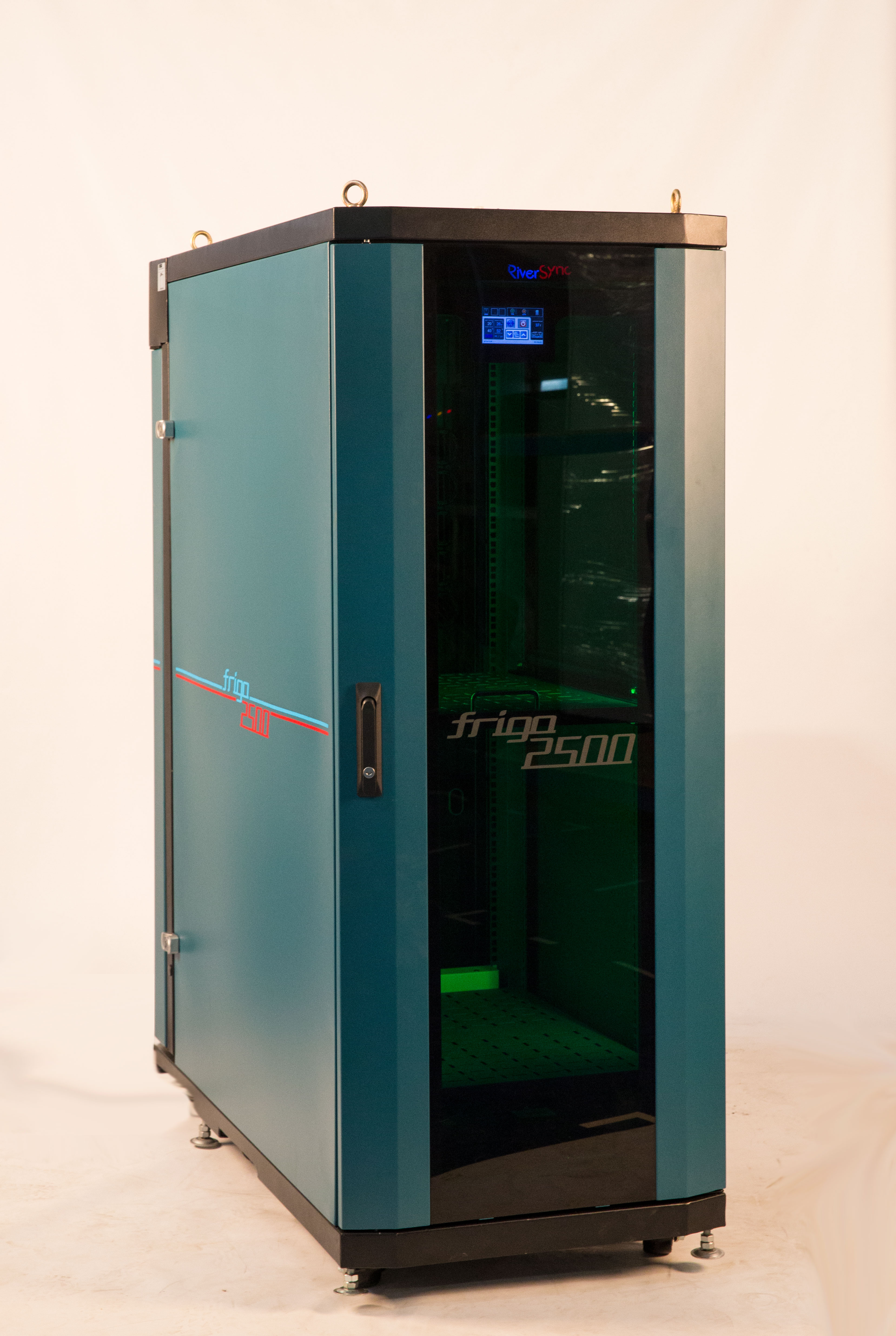 micro data center